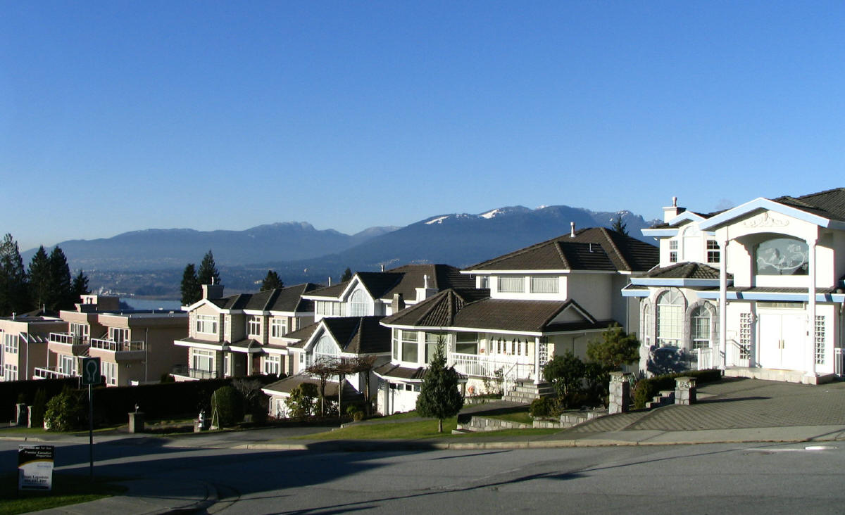 This image was created by me, Flying Penguin of Pacific Spirit Photography ( of Burnaby, BC, Canada